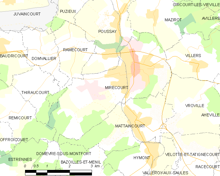 Map of French municipality Mirecourt